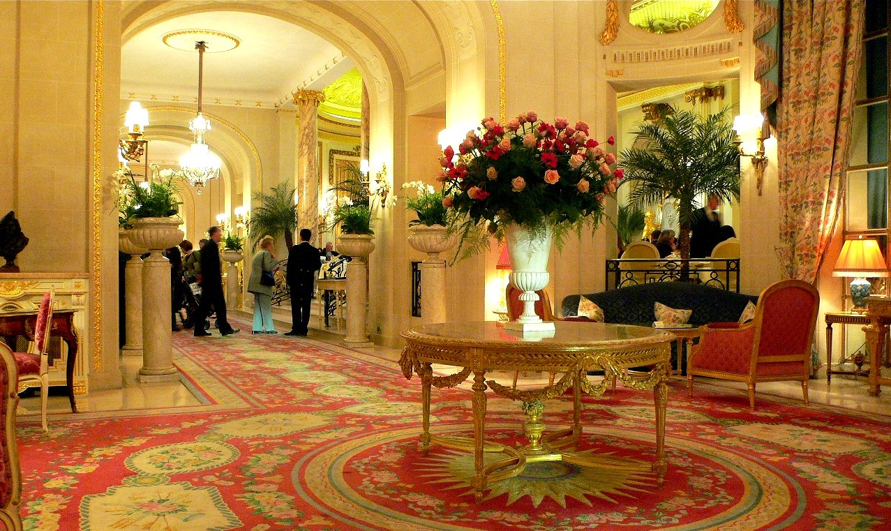 The Ritz